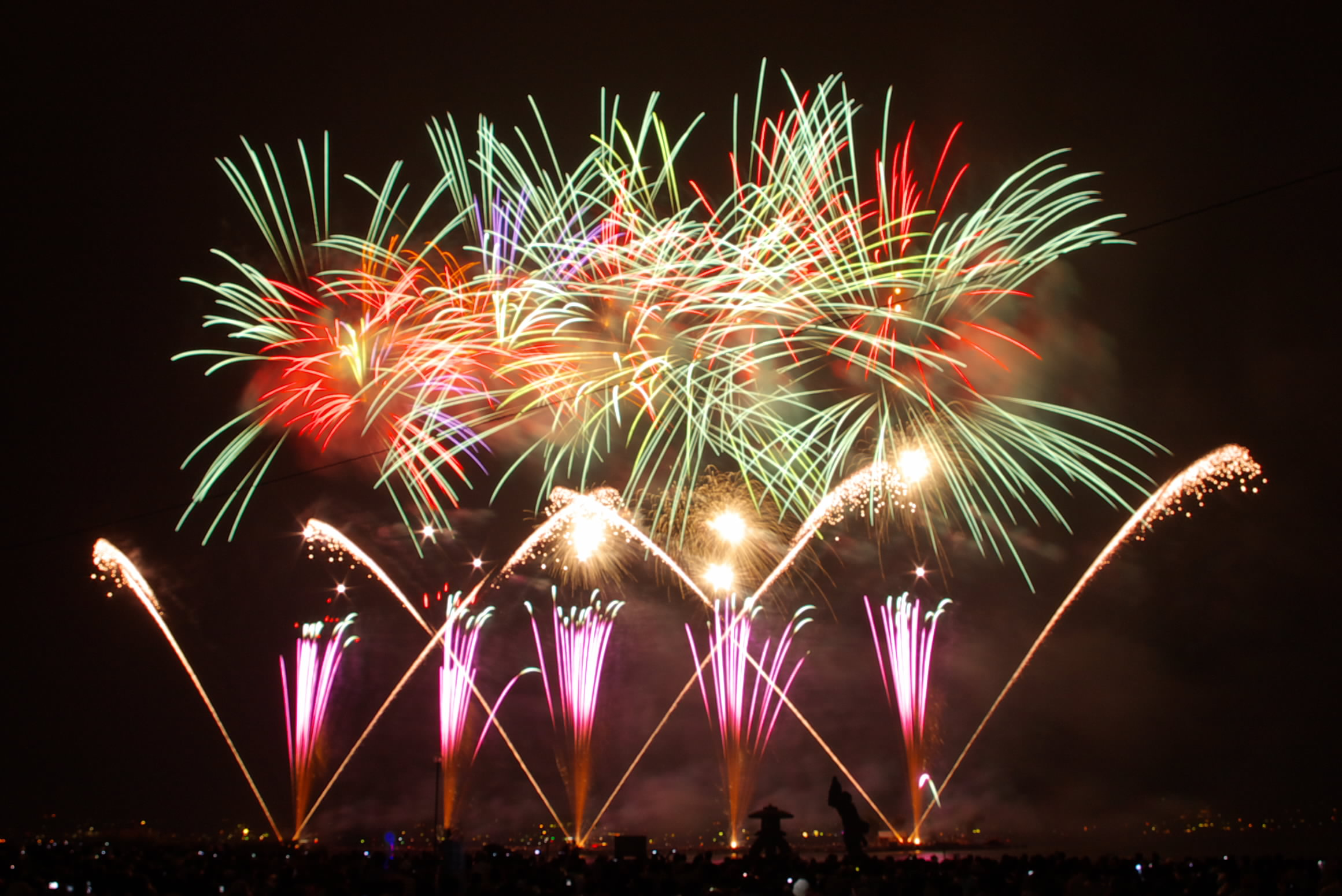 Fireworks on Lake Suwa